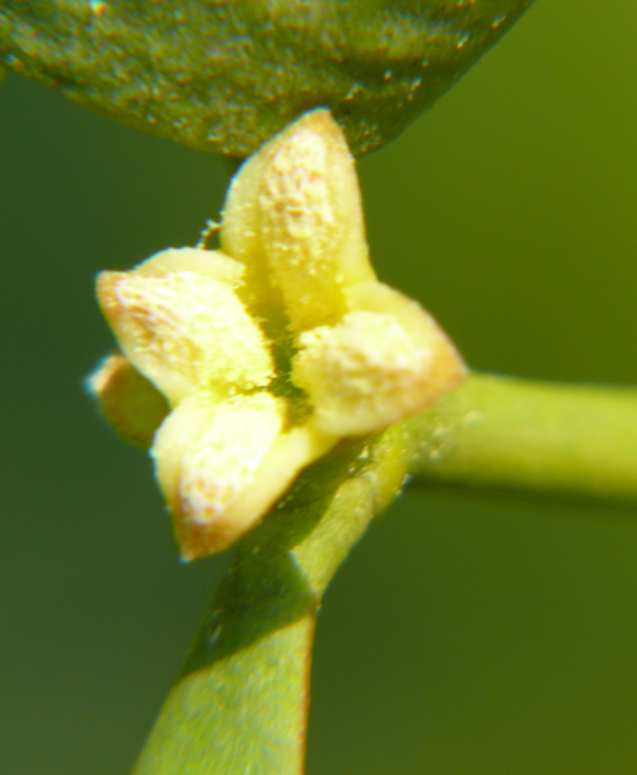 Mistletoe flower.